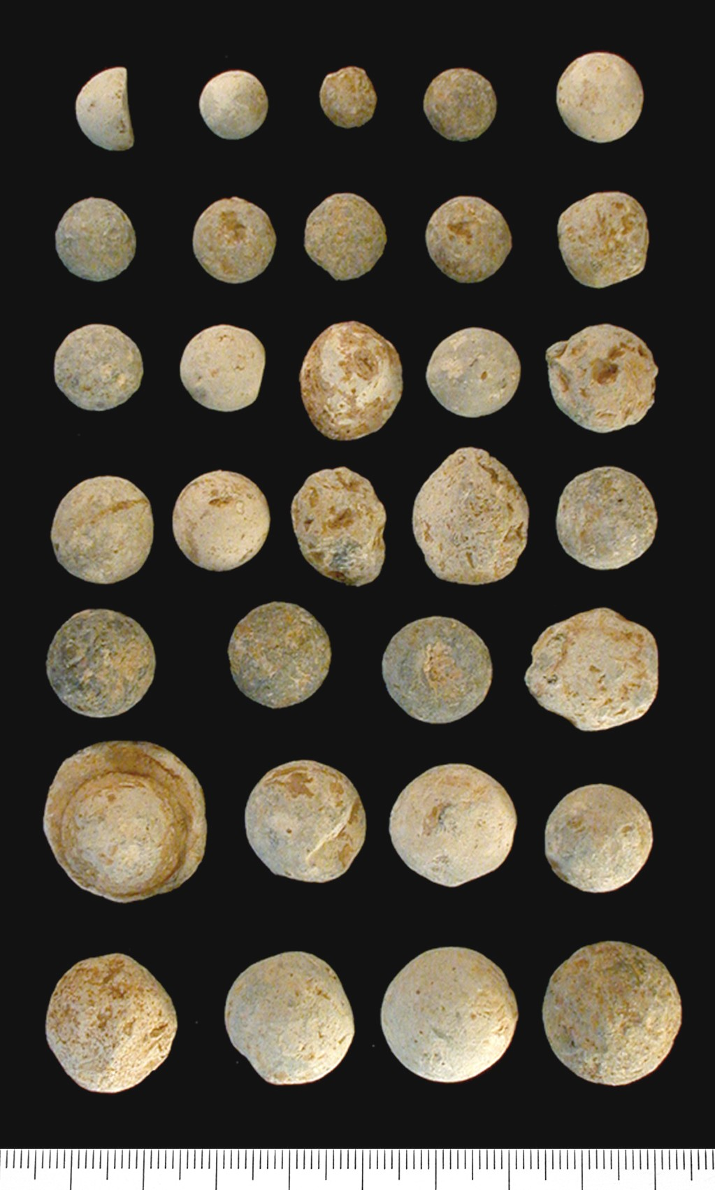 Collection of thirty cast lead round shot. Probably Post Medieval (AD 1500 - AD 1800). Combined weight 508g.The shot range in diameter from 7mm to 19mm. Some of the shot possess impact facets.